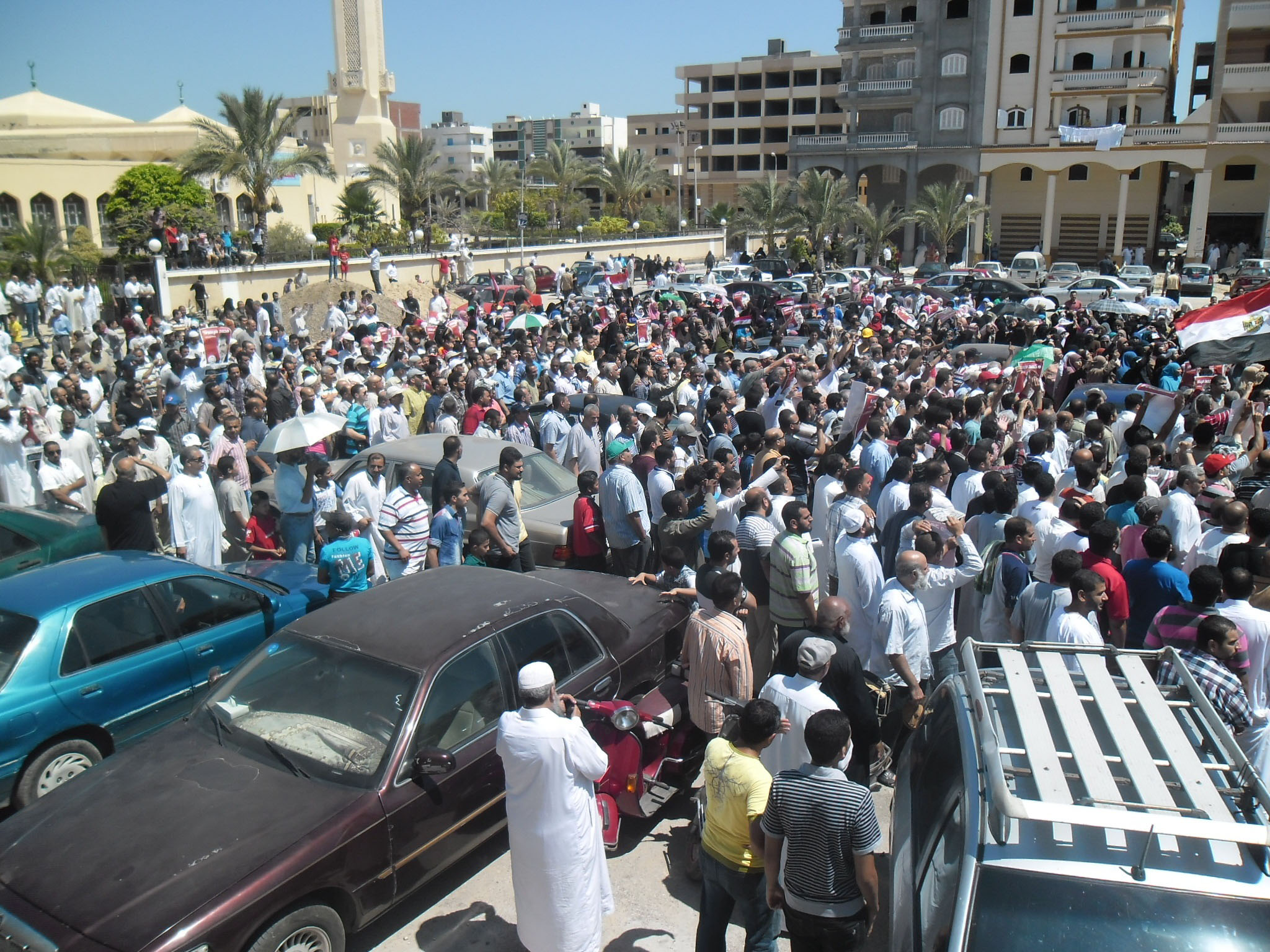 Picture showing pro-Morsi protesters in Damietta on July 5, 2013